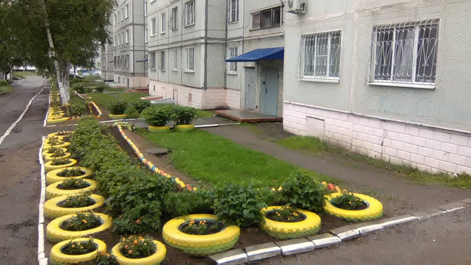 Жилой дом